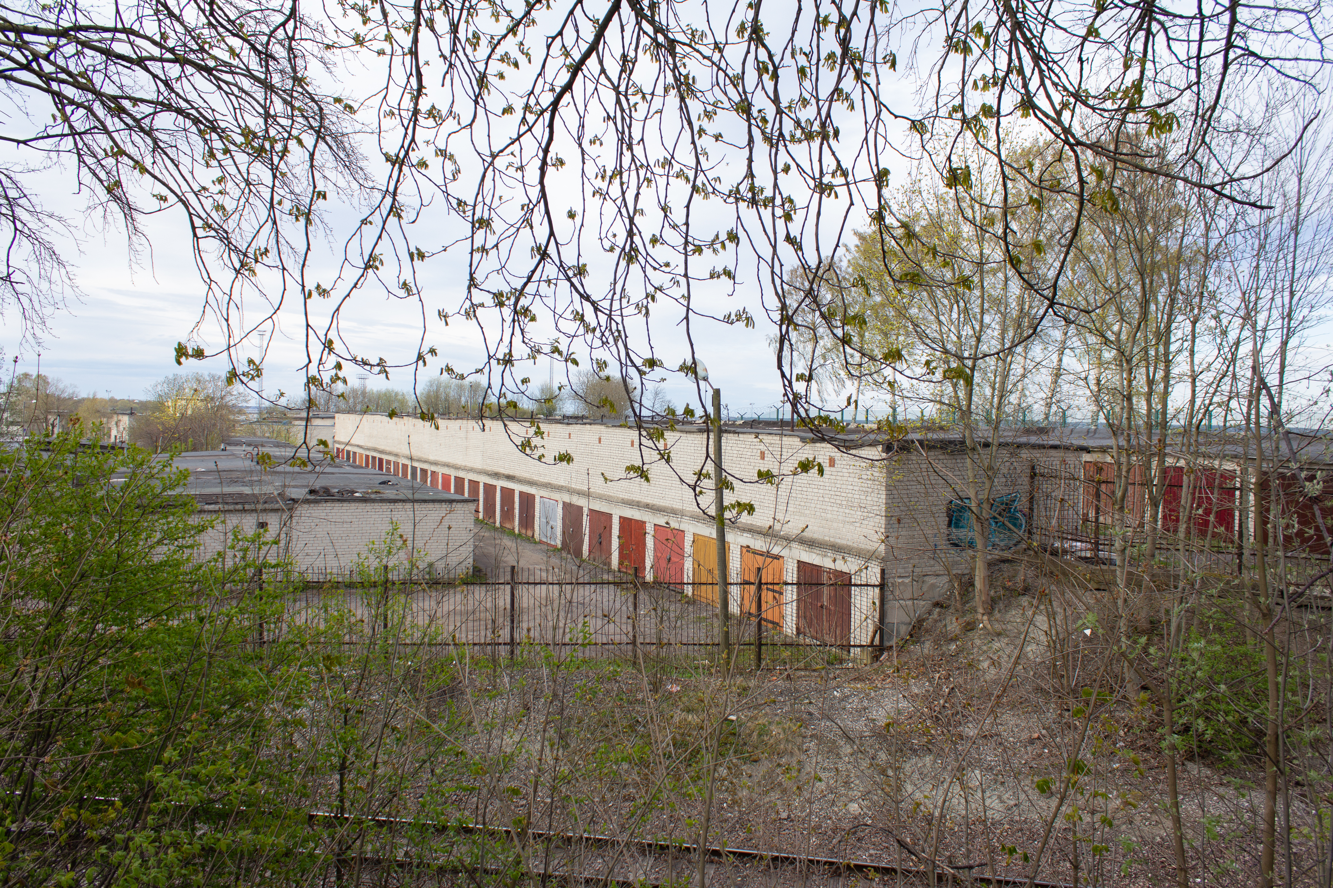 View from Hundipea Street to Lume Street in Tallinn (2020-05-06)